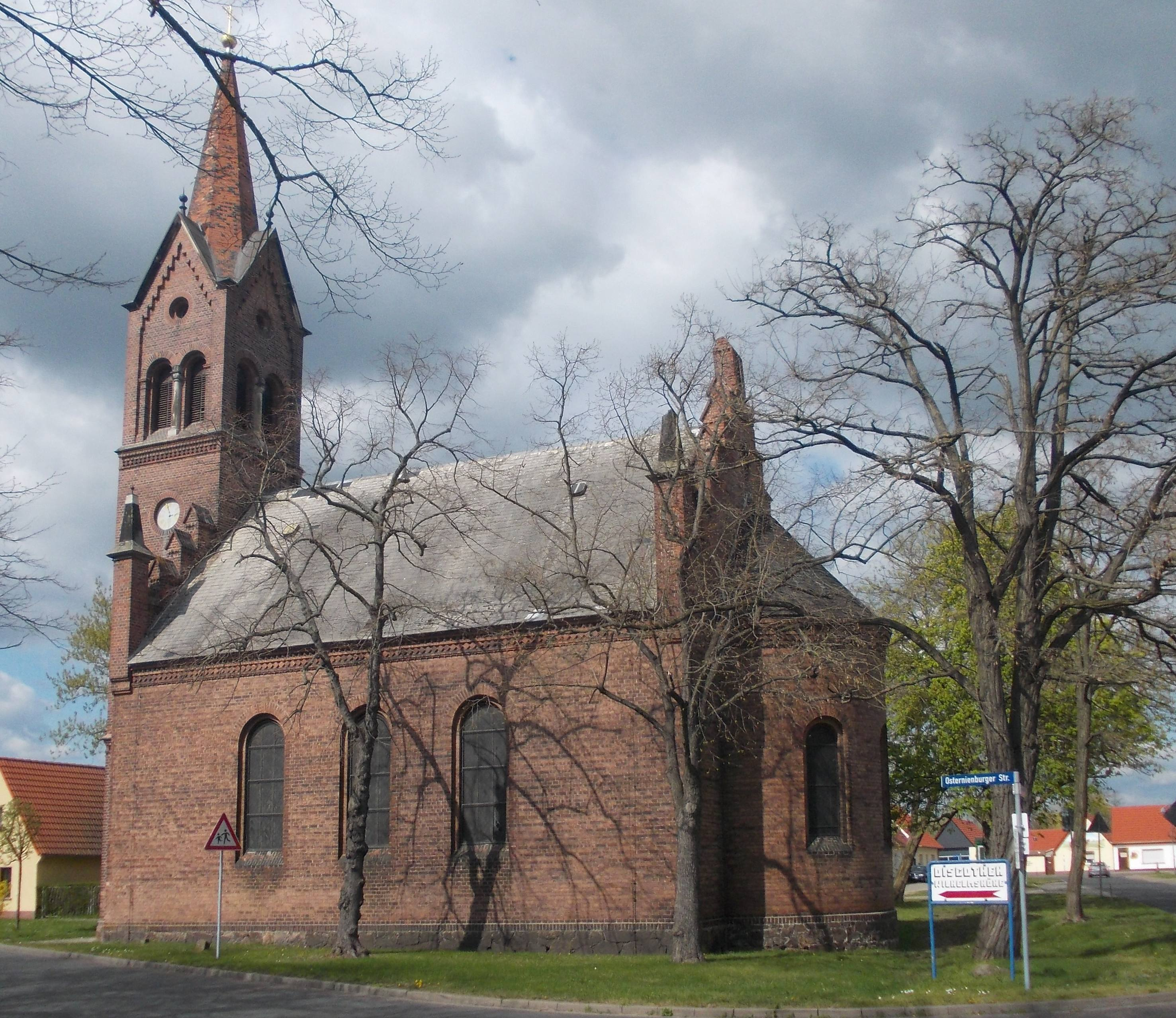 Elsnigk church (Osternienburger Land, Anhalt-Bitterfeld district, Saxony-Anhalt)